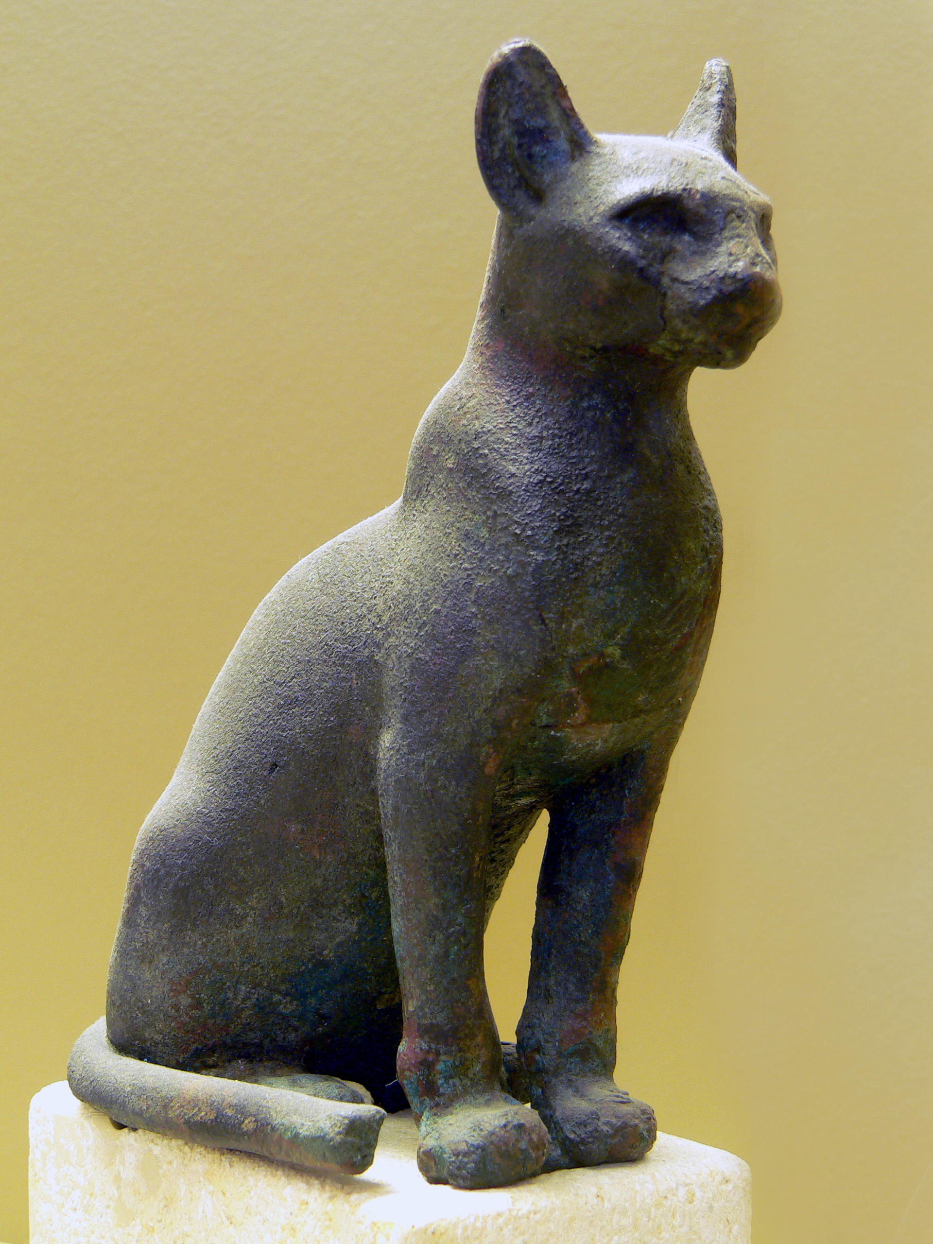 statuette of a cat - egyptian - height app.12cm